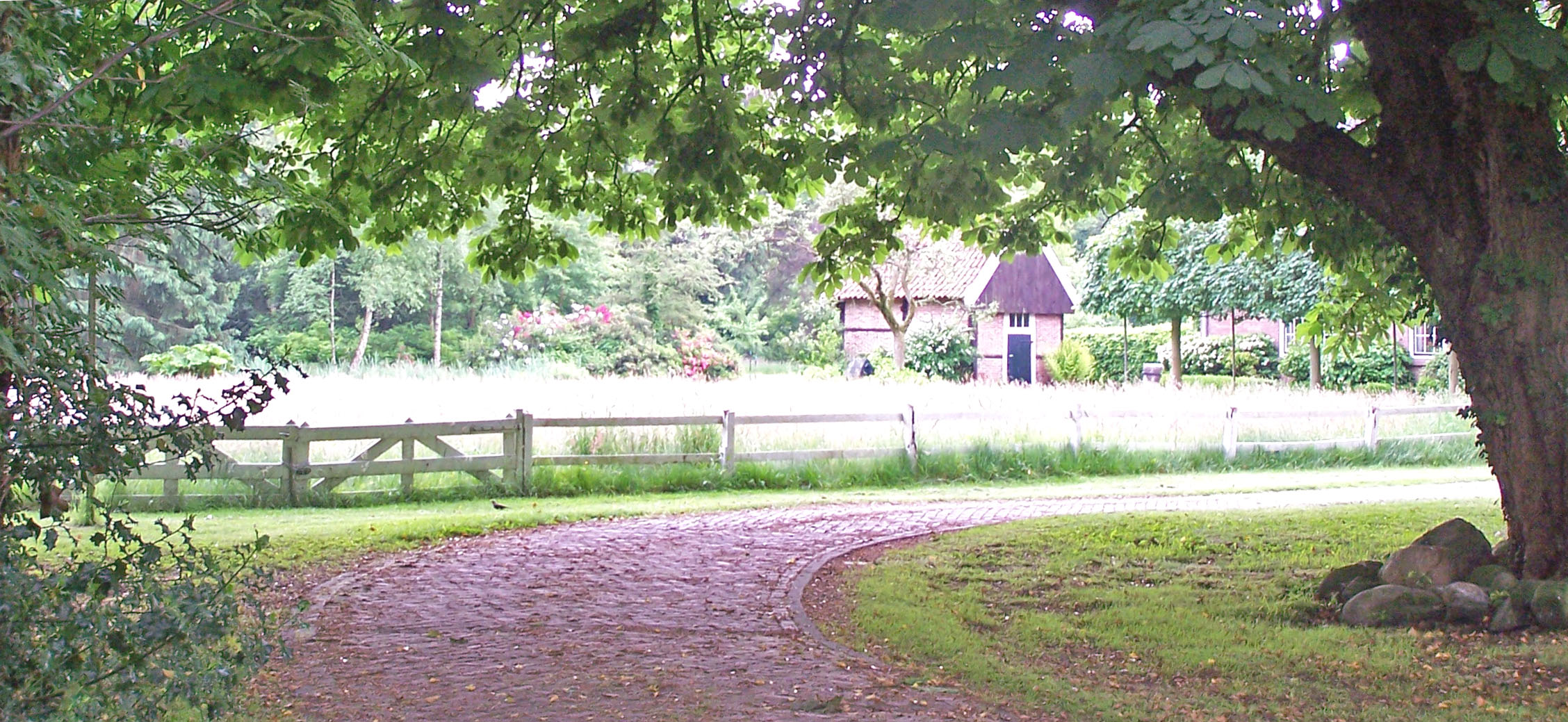 Driving lane towards farm in Twekkelo, Netherlands. In the back a small building for baking, an object in the Dutch National Trust.